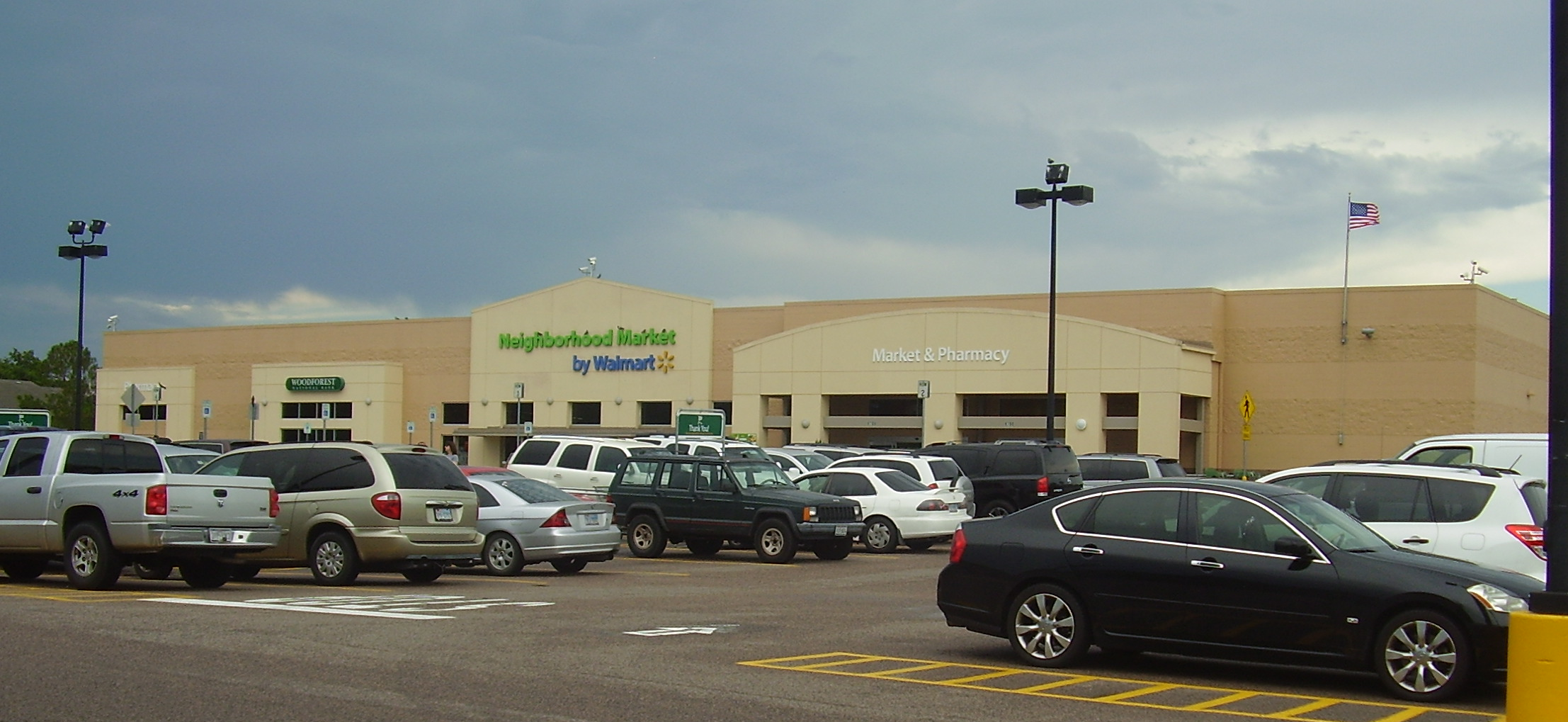 Wal-Mart Houston Neighborhood Market Store #5094 - 9700 Hillcroft St Houston, TX 77096